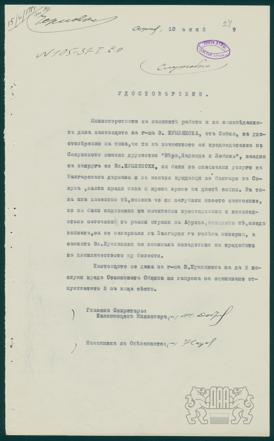 Shumlyanska Certificate from Bulgarian Foreign Ministry 1929-06-10